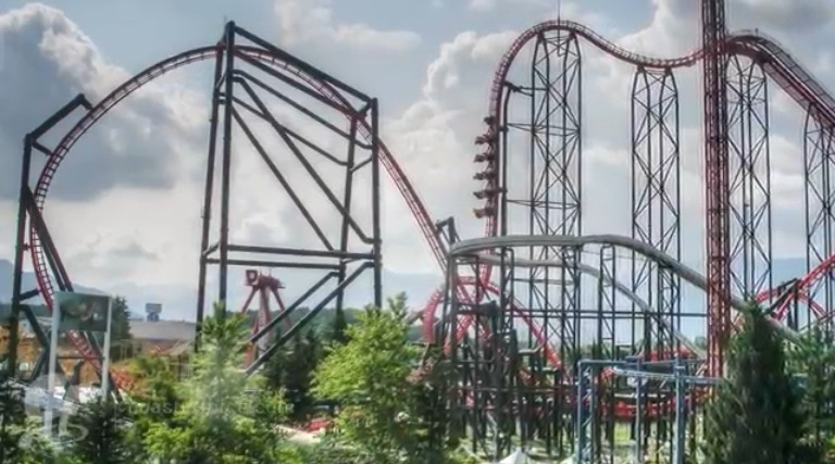 A raven turn at one of the 4D coasters.